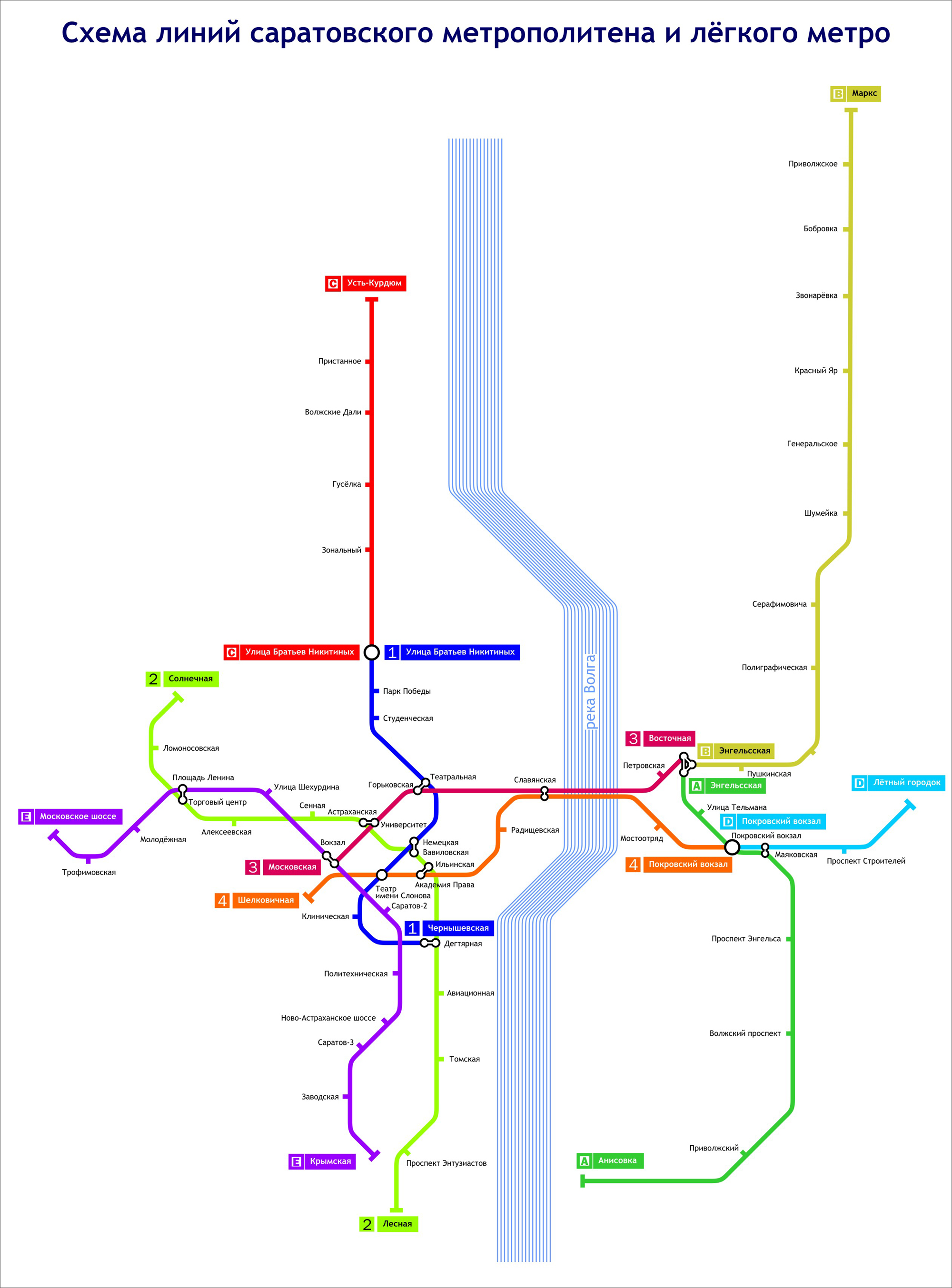 Project of rapid transit in Saratov, Russia.